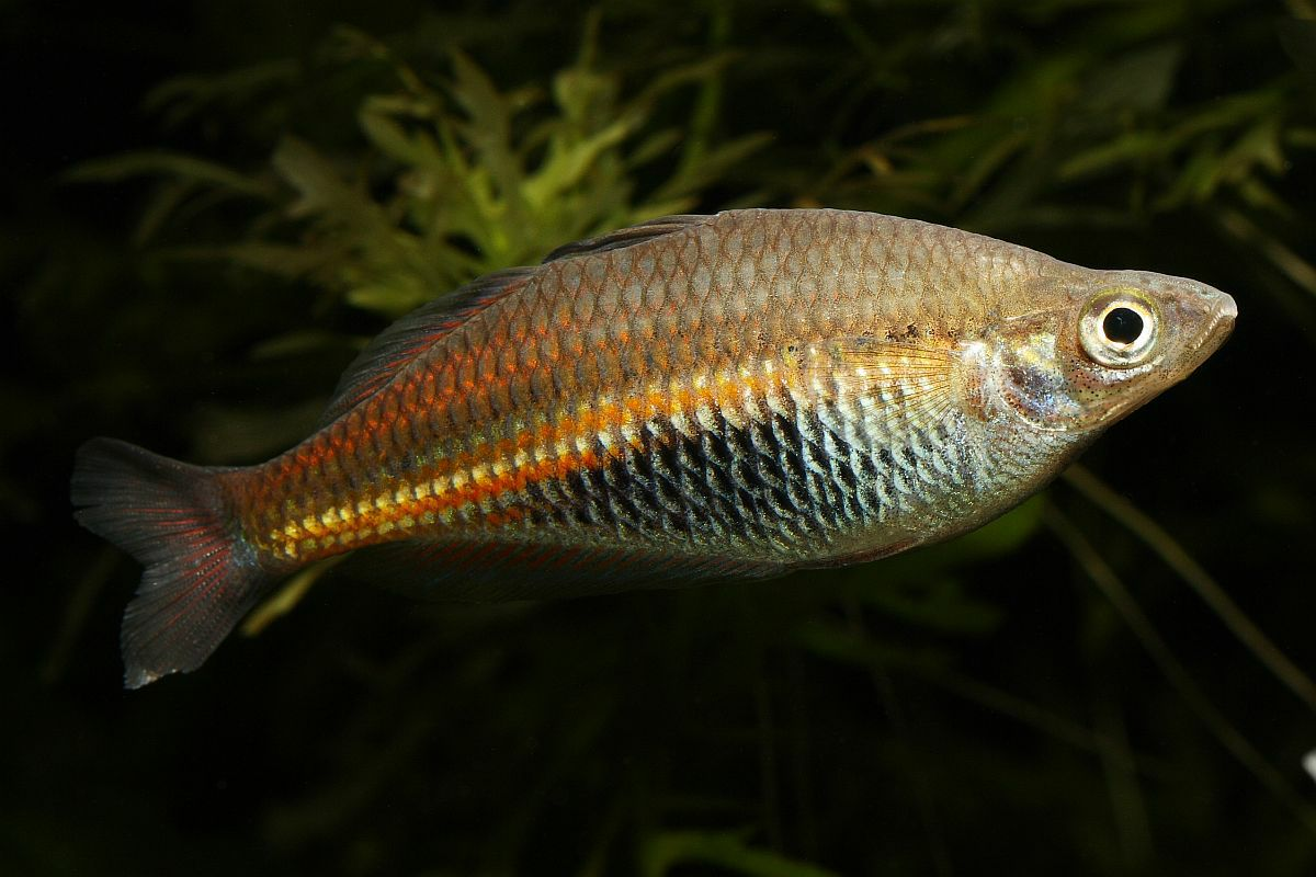 Ramu Rainbowfish (Glossolepis ramuensis) - male - in aquarium.